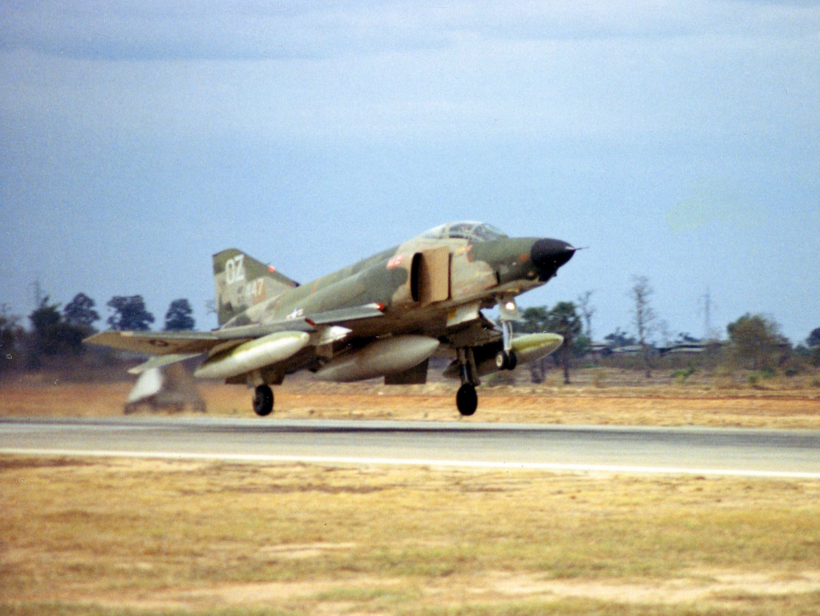 A U.S. Air Force McDonnell RF-4C-31-MC Phantom II (s/n 66-0447) of the 14th Tactical Reconnaissance Squadron, 432nd Tactical Reconnaissance Wing landing at Udorn Royal Thai Air Force Base, in 1968. 66-0447 was hit by ground fire and shot down over the sông Gianh River (N 17.64535 E 106.40680) on 15 August 1968. The pilot, Lt.Col. Terrin Dinsmore Hicks, was killed, the weapons system officer, Capt. Joseph Francis Shanahan, became a prisoner of war.